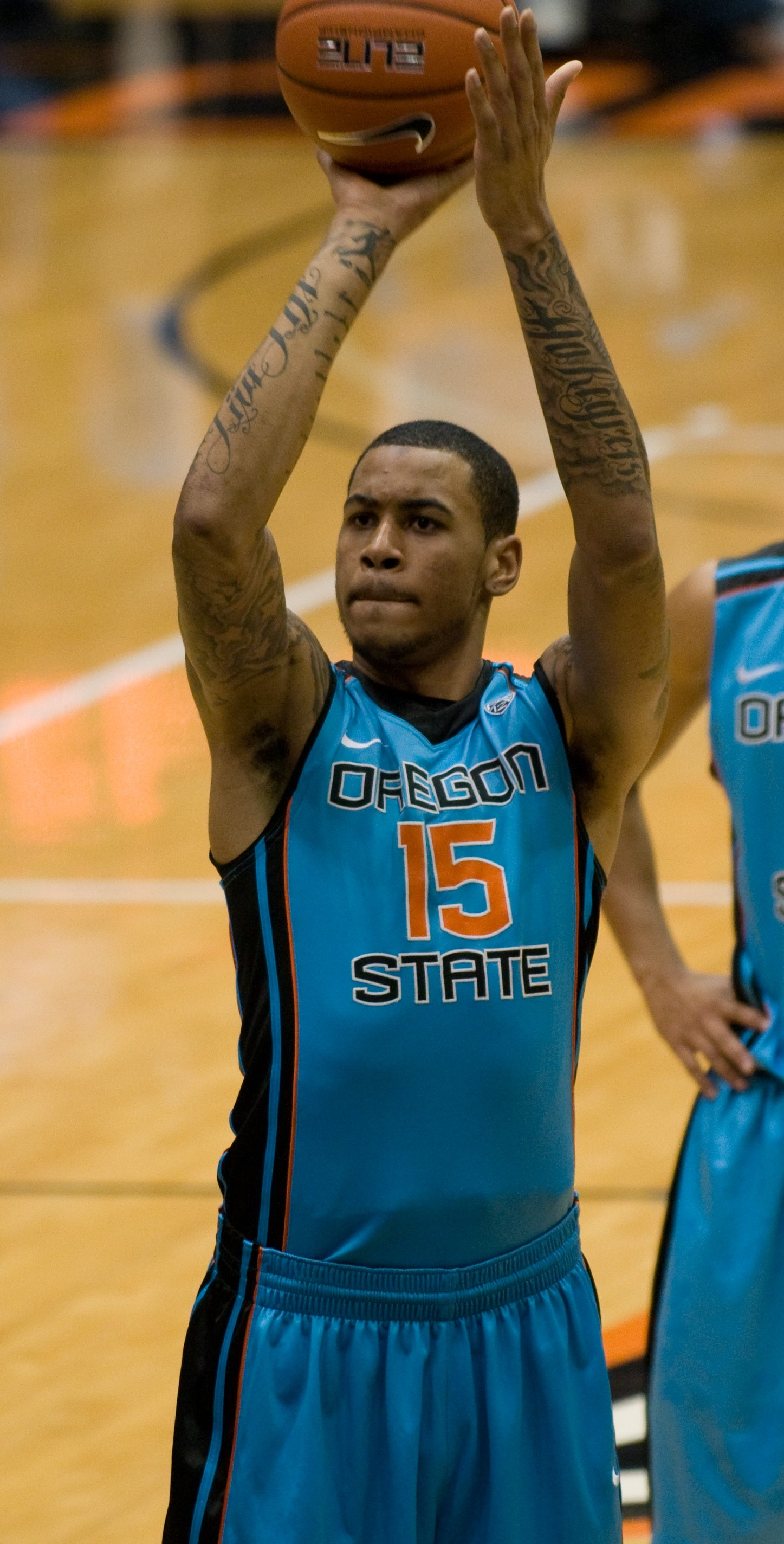 Eric Moreland shoots a free throw in 2012